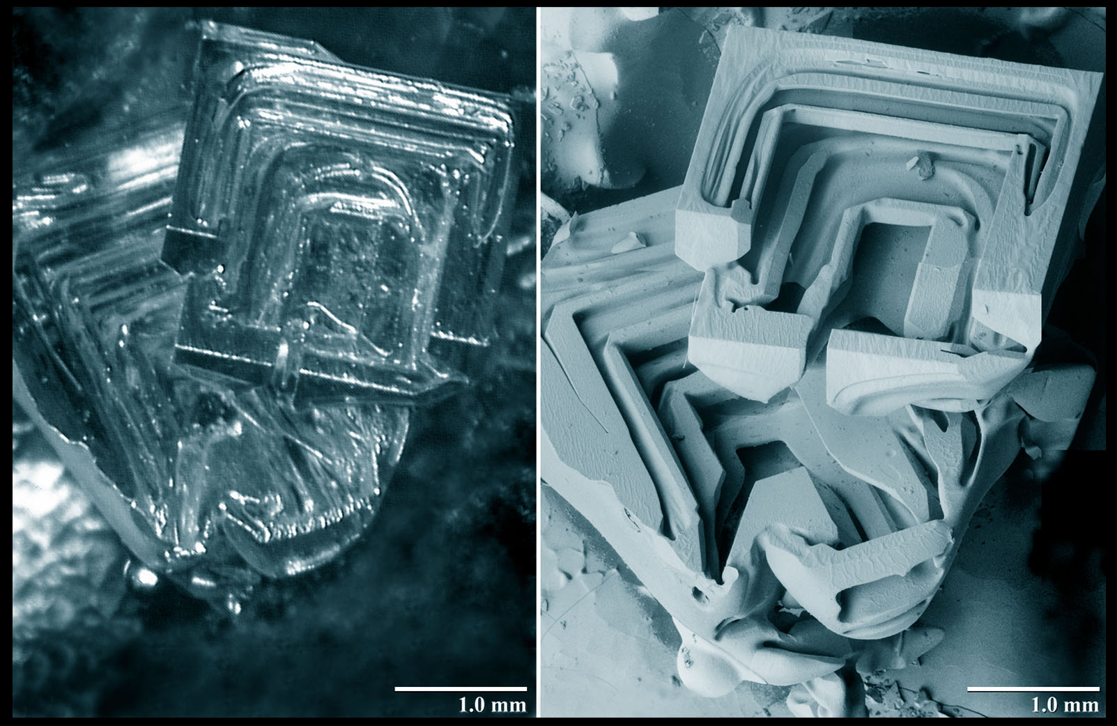 Comparison of depth hoar crystal using light (video) and Low Temperature Scanning Electron Microscopy Example of a depth hoar crystal collected from the base of a snowpit in Wyoming. Comparison of video and Low Temperature Scanning Electron Microscopy images of the identical crystal illustrates that the faceting and internal features in the video image are somewhat compromised by the transmitted, reflected and refracted light that occurs with the light microscope. The external features are more distinct in the Low Temperature Scanning Electron Microscope image. Description from